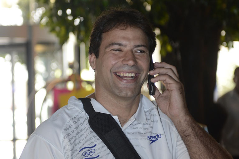 Ariel Zeevi, 2012